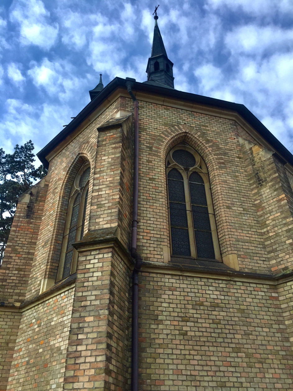 desc